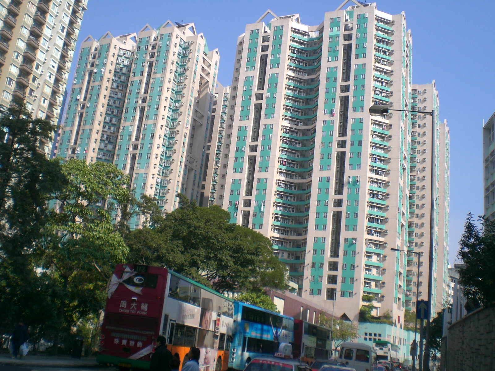 北角七姊妹道健康邨, Healthy Village, Tsat Tsz Mui Road, North Point, Hong Kong.